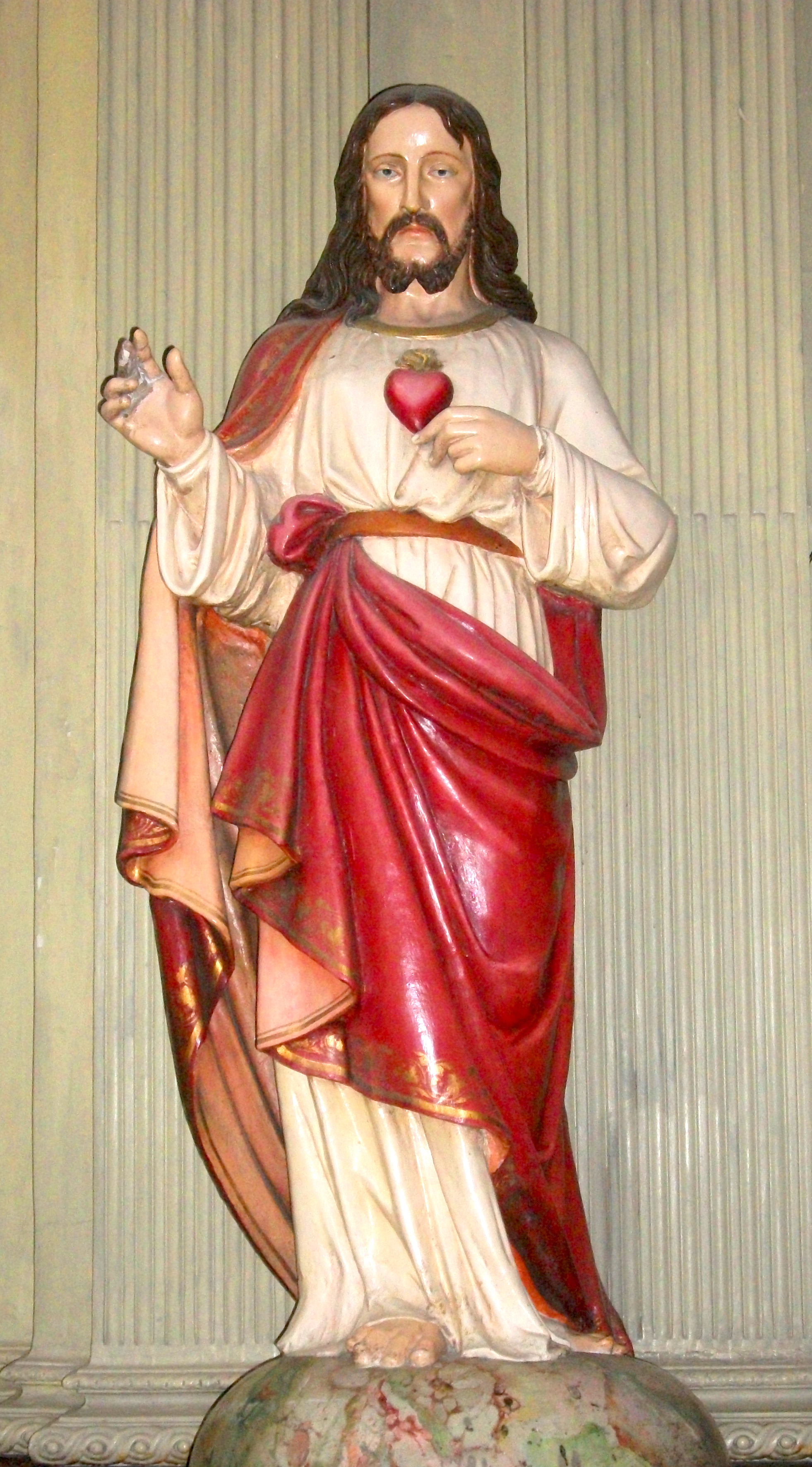 Tbilisi St. Peter-Paul Catholic Church